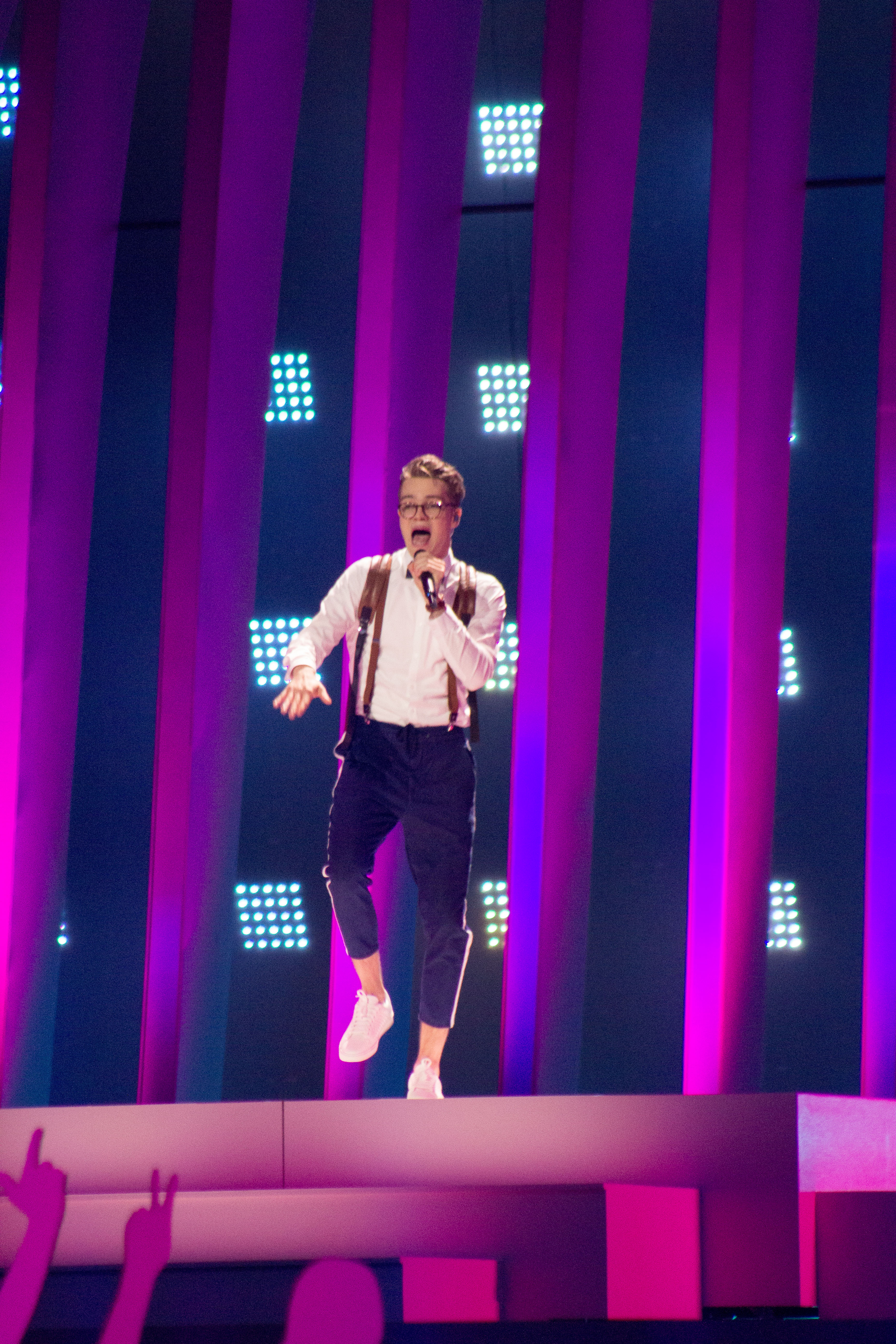 Mikolas Josef representing Czech Republic with the song "Lie to Me" during a rehearsal before the first semi final of the Eurovision Song Contest 2018 in Lisbon.